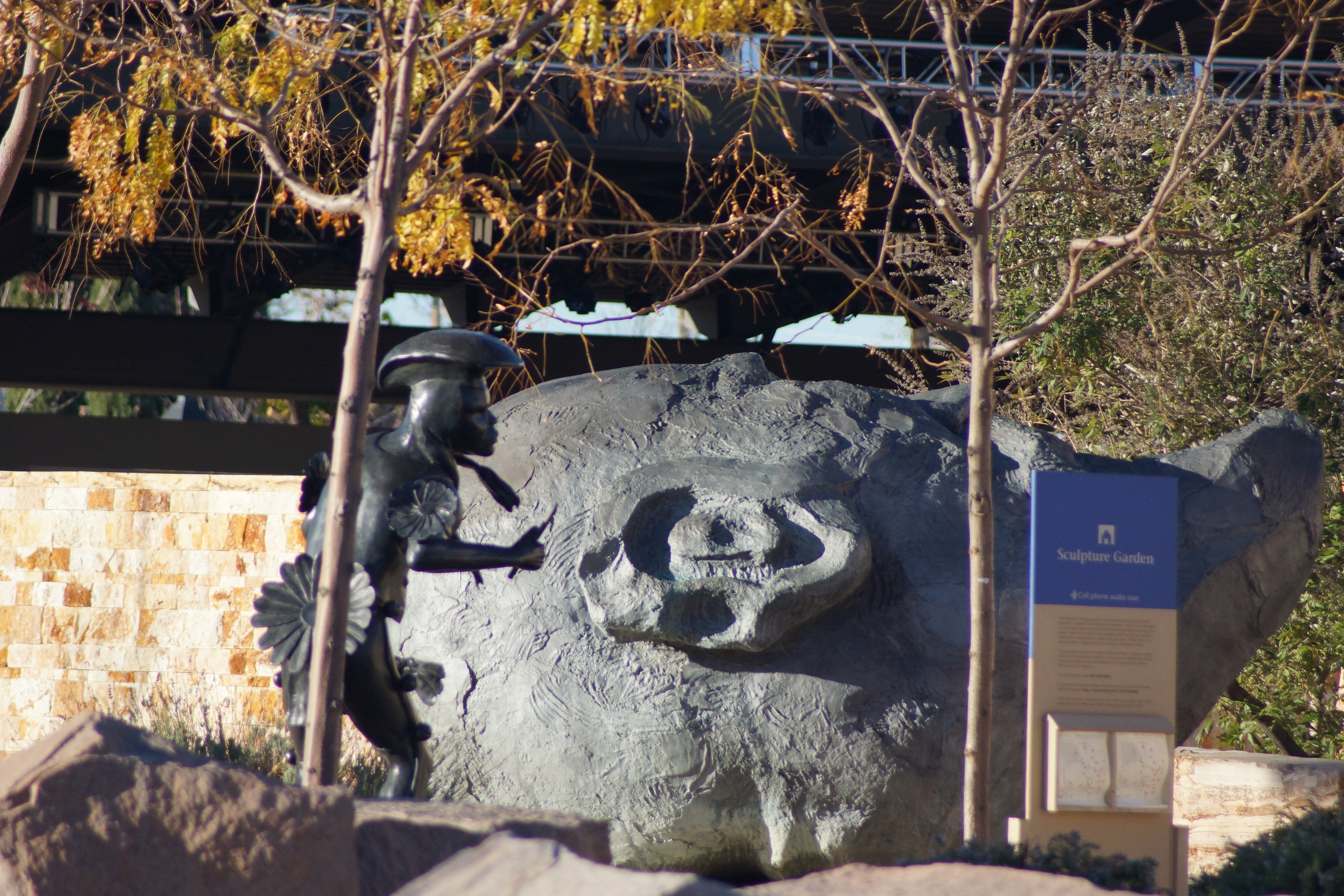 2013, The Dancer, Michael Naranjo and Cervantes, Charles Strong, Albuquerque Museum of History and Art Sculpture Garden